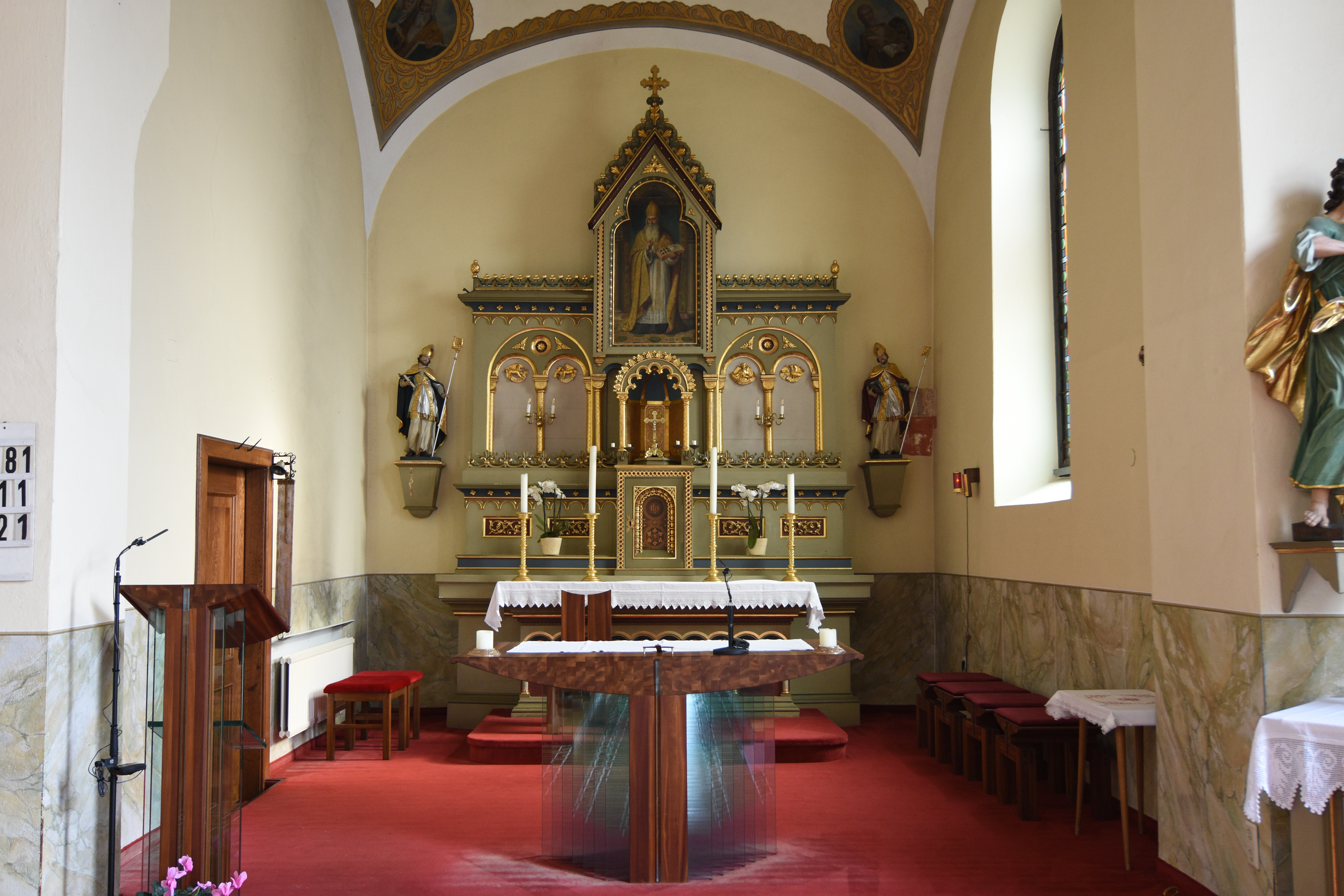 Church Deutsch Kaltenbrunn - Interior